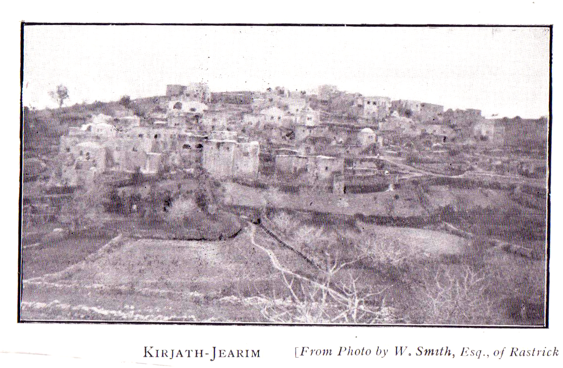 Kirjath Jearim. circa 1904